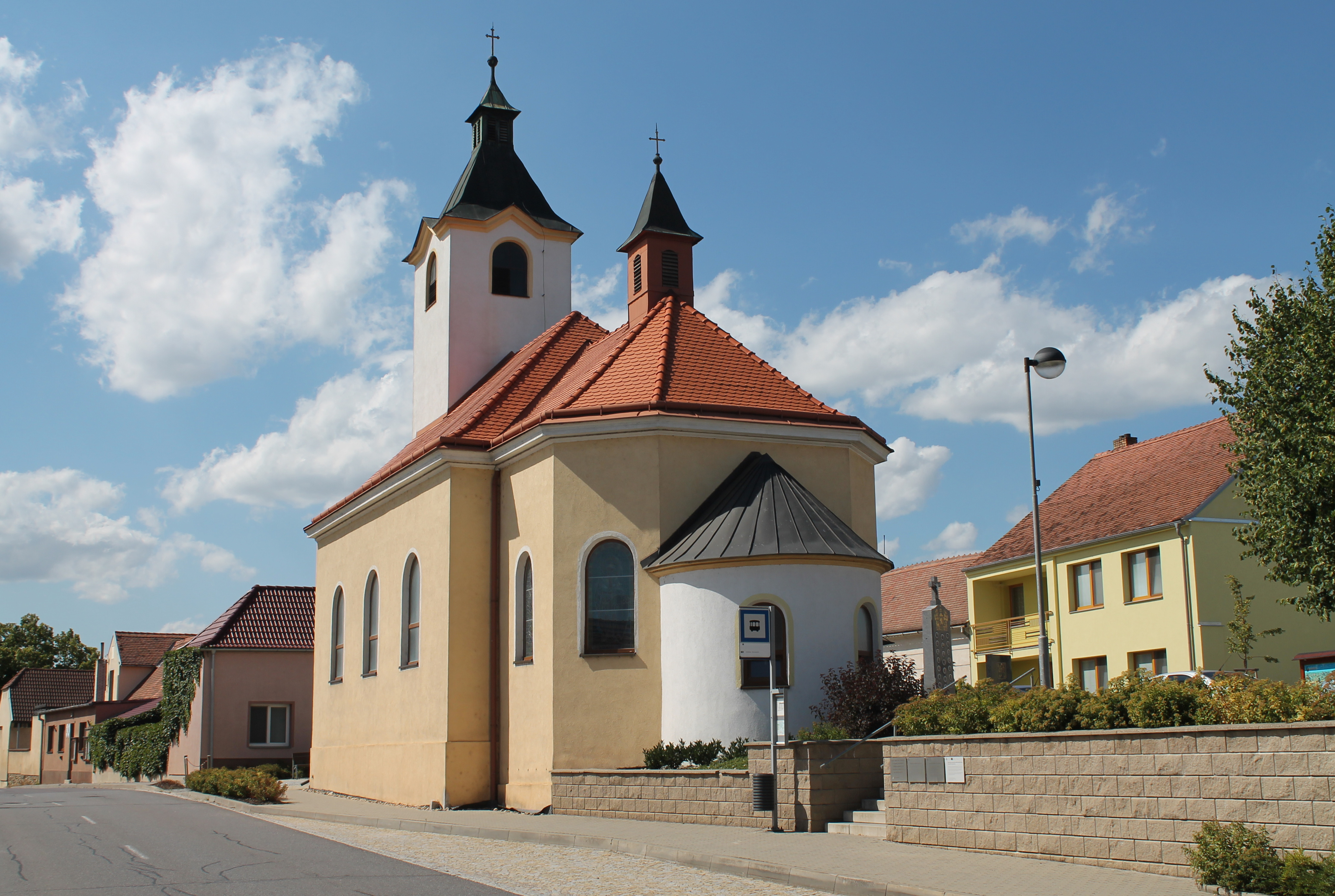 Church of Saint Florian, Kuchařovice, Znojmo District, Czech Republic